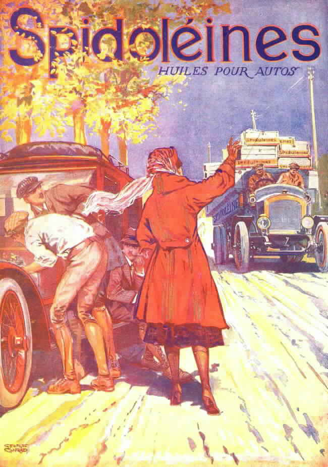 Advertising poster of oils Spidoléines by G. Conrad.